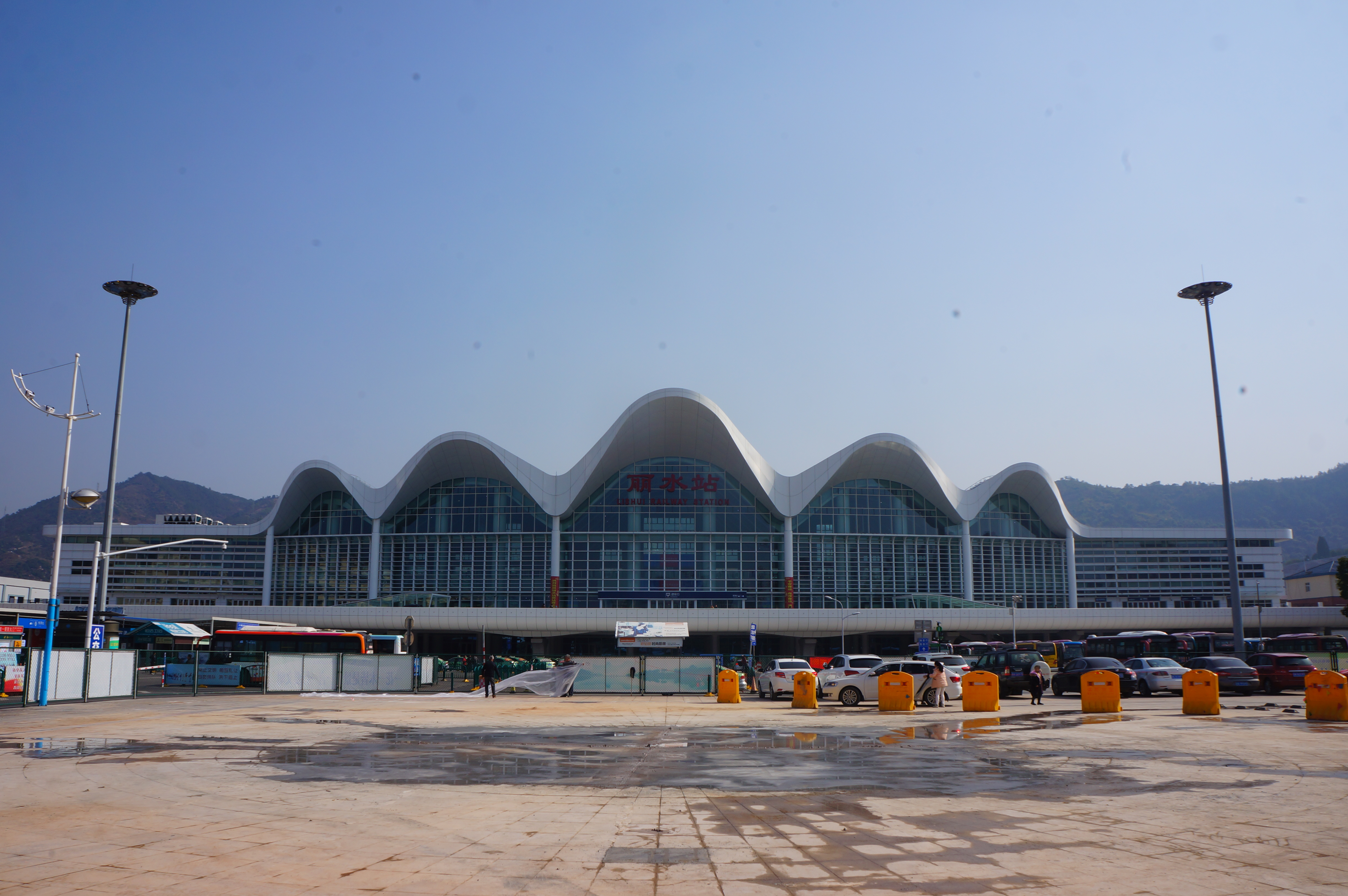 201701 Lishui Railway Station